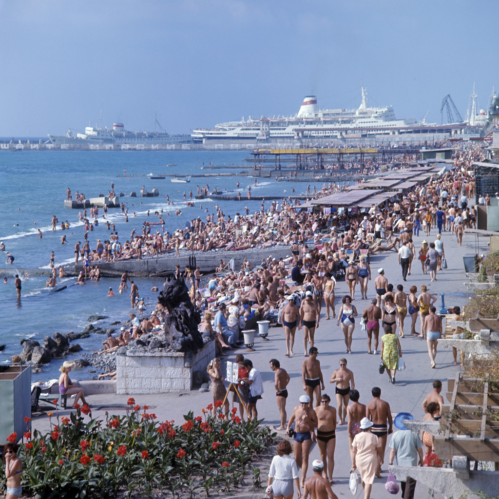 Promenade and beach in Sochi, Soviet Union.